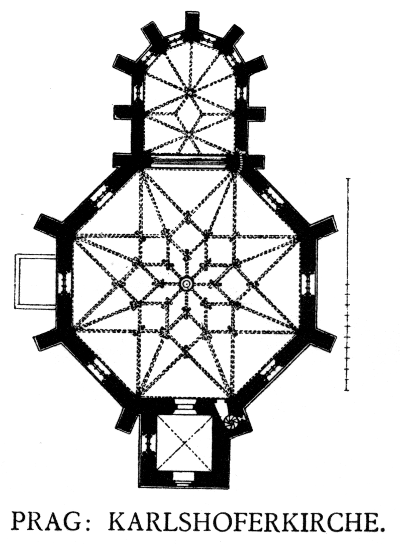 Prague, Karlshof